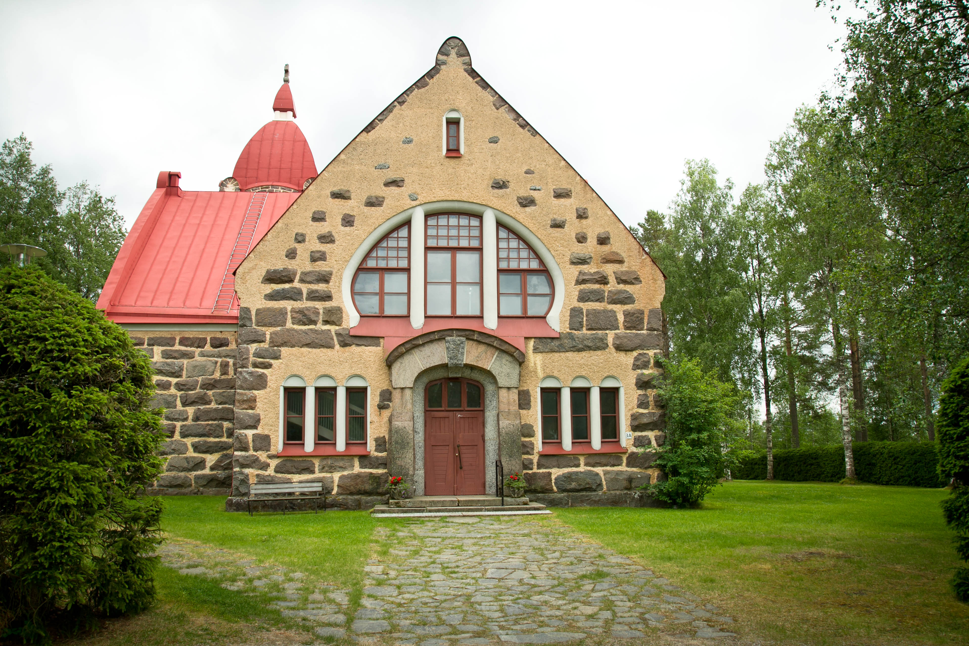 Church of Vuolijoki in June, 2011